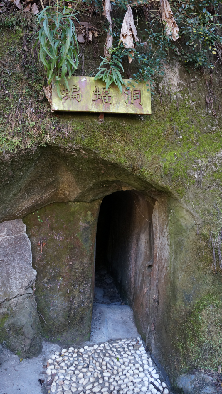 Bat Cave, Taiping District, Taichung City, Taiwan中文（台灣）: 太平蝙蝠洞